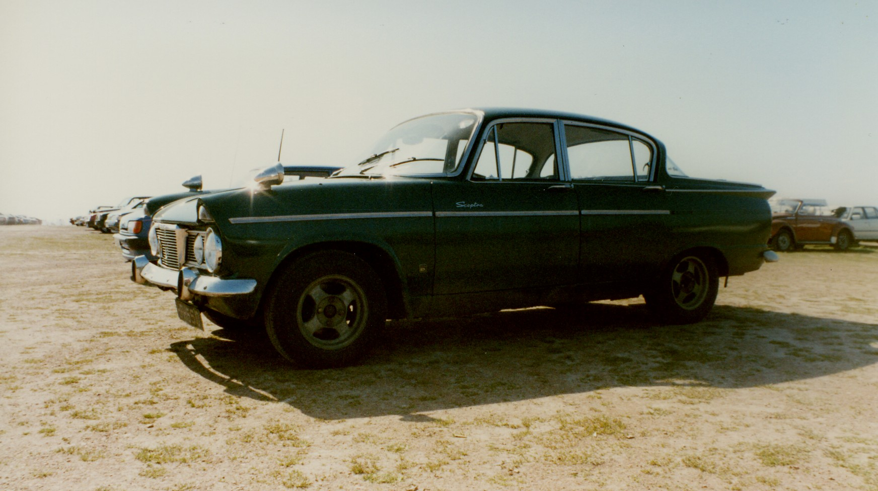 Humber Sceptre, Hillman Super Minx generation; in car park at Ingliston near Edinburgh